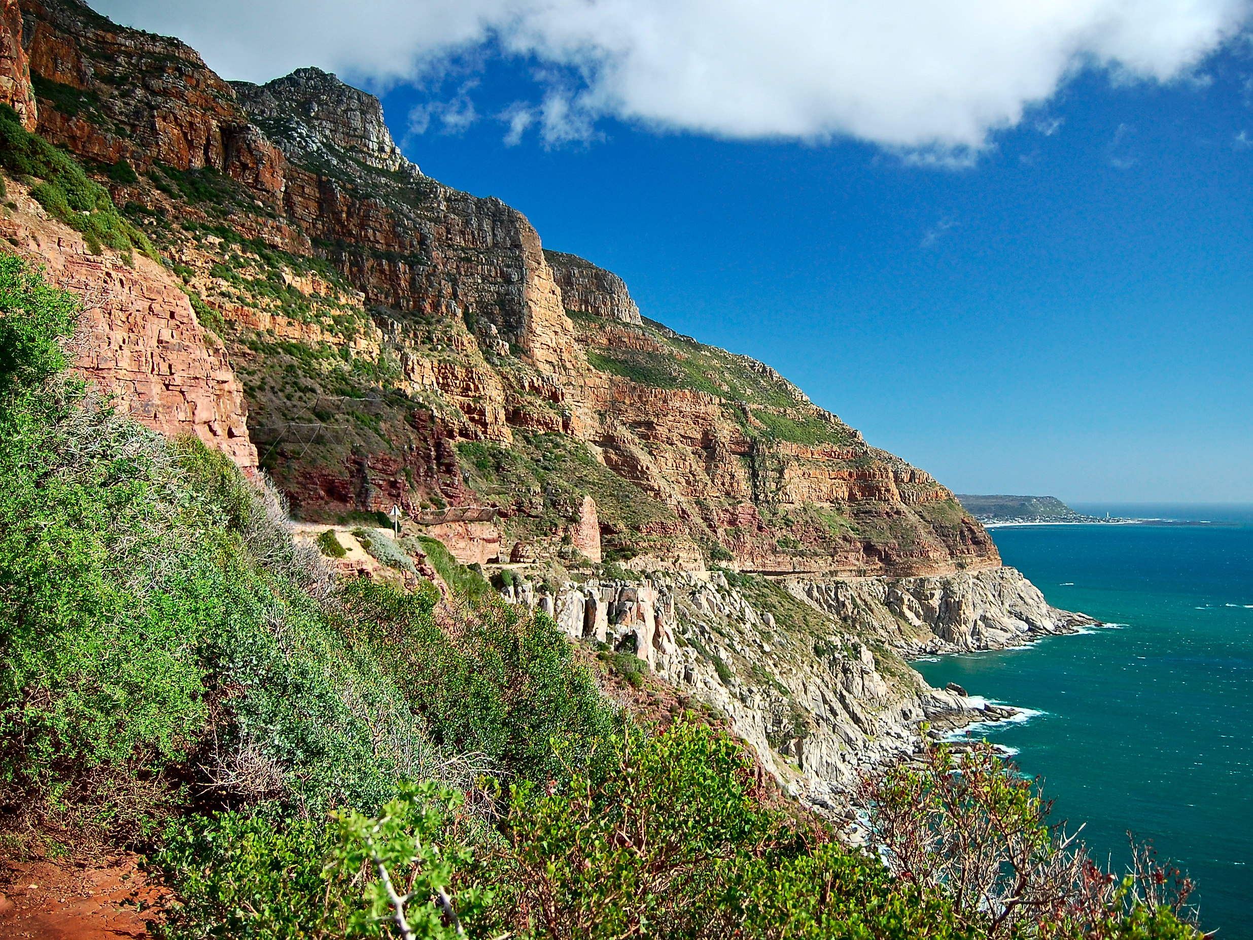 Chapman's Peak Drive